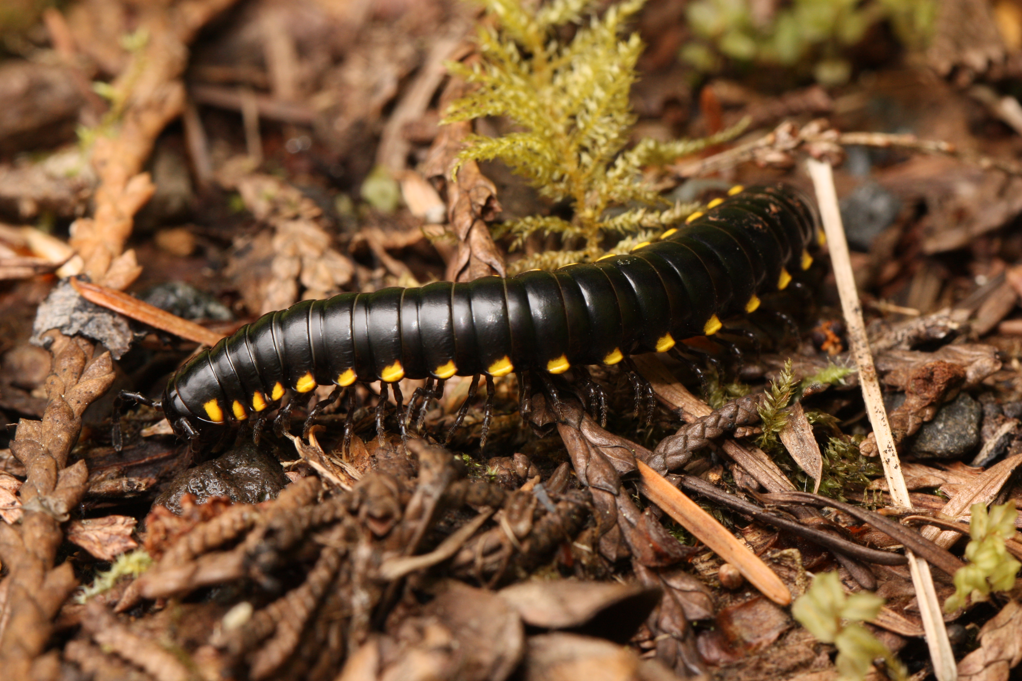 Yellow-spotted Millipede, Almond-scented Millipede or Cyanide Millipede